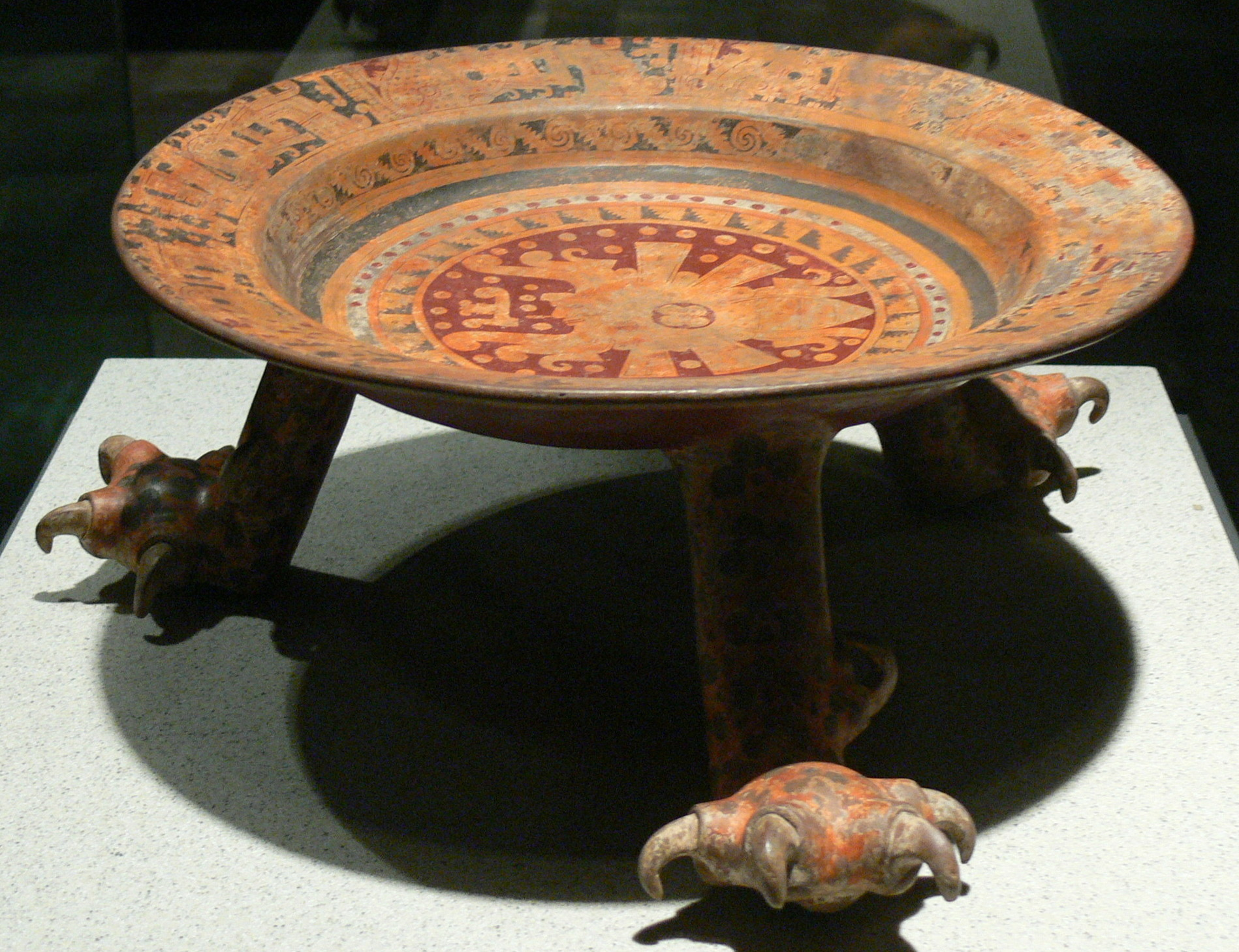 National Museum of Anthropology in Mexico City. Ceramics from Zaachila.